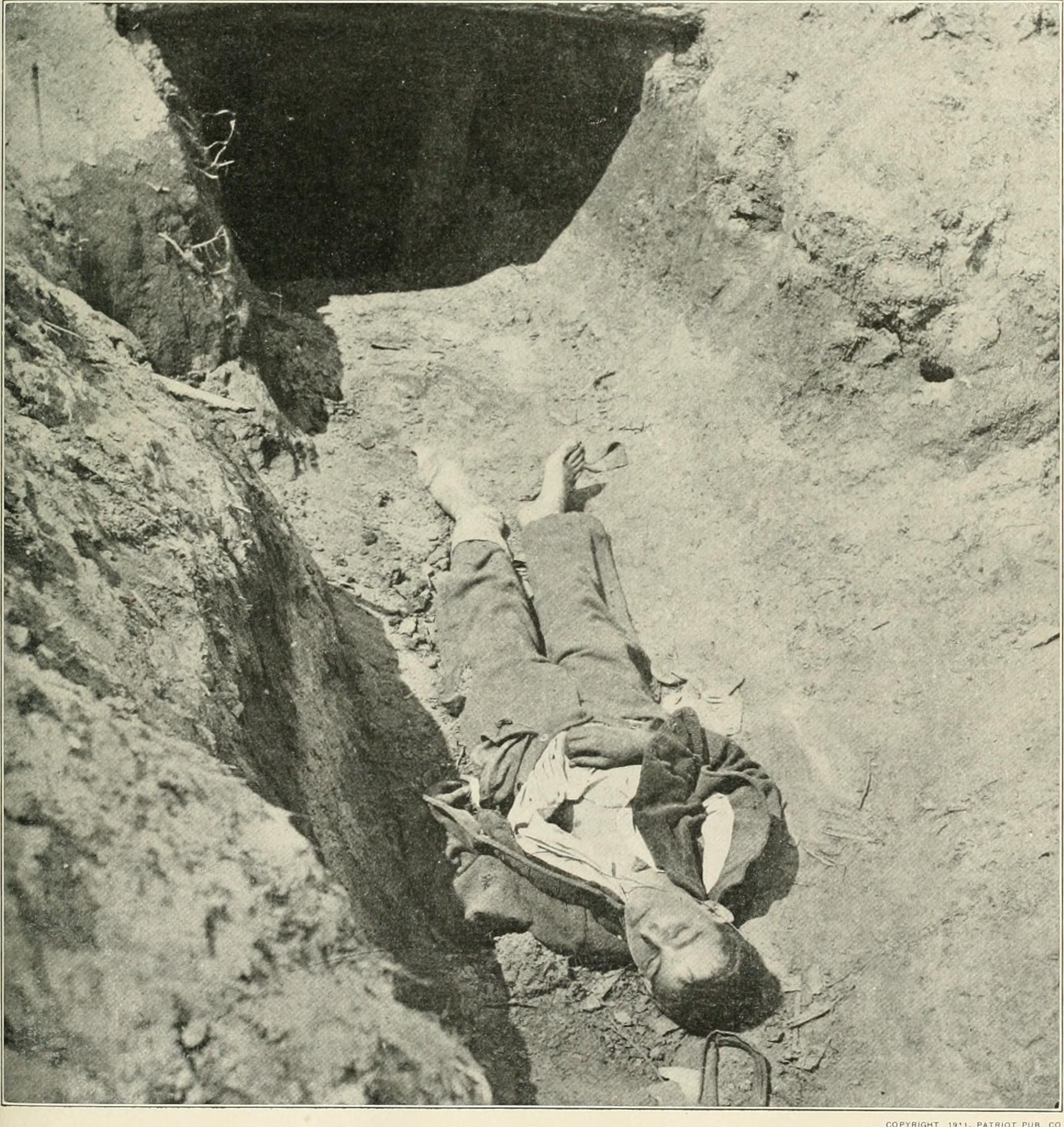 Title: The photographic history of the Civil War : thousands of scenes photographed 1861-65, with text by many special authorities Year: 1911 (1910s) Authors: Miller, Francis Trevelyan, 1877-1959 Lanier, Robert S. (Robert Sampson), 1880- Subjects: United States -- History Civil War, 1861-1865 Pictorial works United States -- History Civil War, 1861-1865 Publisher: New York : Review of Reviews Co. Text Appearing Before Image: blue ranks were young,but in the South there were whole companies made up of such boys as this. At the battle of Newmarket the scholars of the Vir-gina Military Institute, the eldest seventeen and the youngest twelve, marched from the classrooms under arms, joined the forcesof General Breckinridge, and aided by their historic charge to gain a brilliant \ictory over the Federal General Sigel. The never-give-in spirit was implanted in the youth of the Confederacy, as well as in the hearts of the grizzled veterans. Lee had inspiredthem, but in addition to this inspiration, as General Gordon WTites, every man of them was supported by their extraordinary con-secration, resulting from the conviction that he was fighting in the defense of home and the rights of his State. Hence their unfal-tering faith in the justice of the cause, their fortitude in the extremest privations, their readiness to stand shoeless and shivering inthe trenches at night and to face any danger at their leailers call. Text Appearing After Image: . PATRIOT Pue CO ^^f.